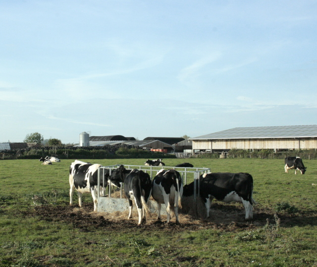 Cattle round a feeder with Avon Farm